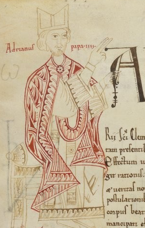 Pope Adrian IV, servus servorum dei, as depicted on a Benedictine chater, c.1150-1200 AD.